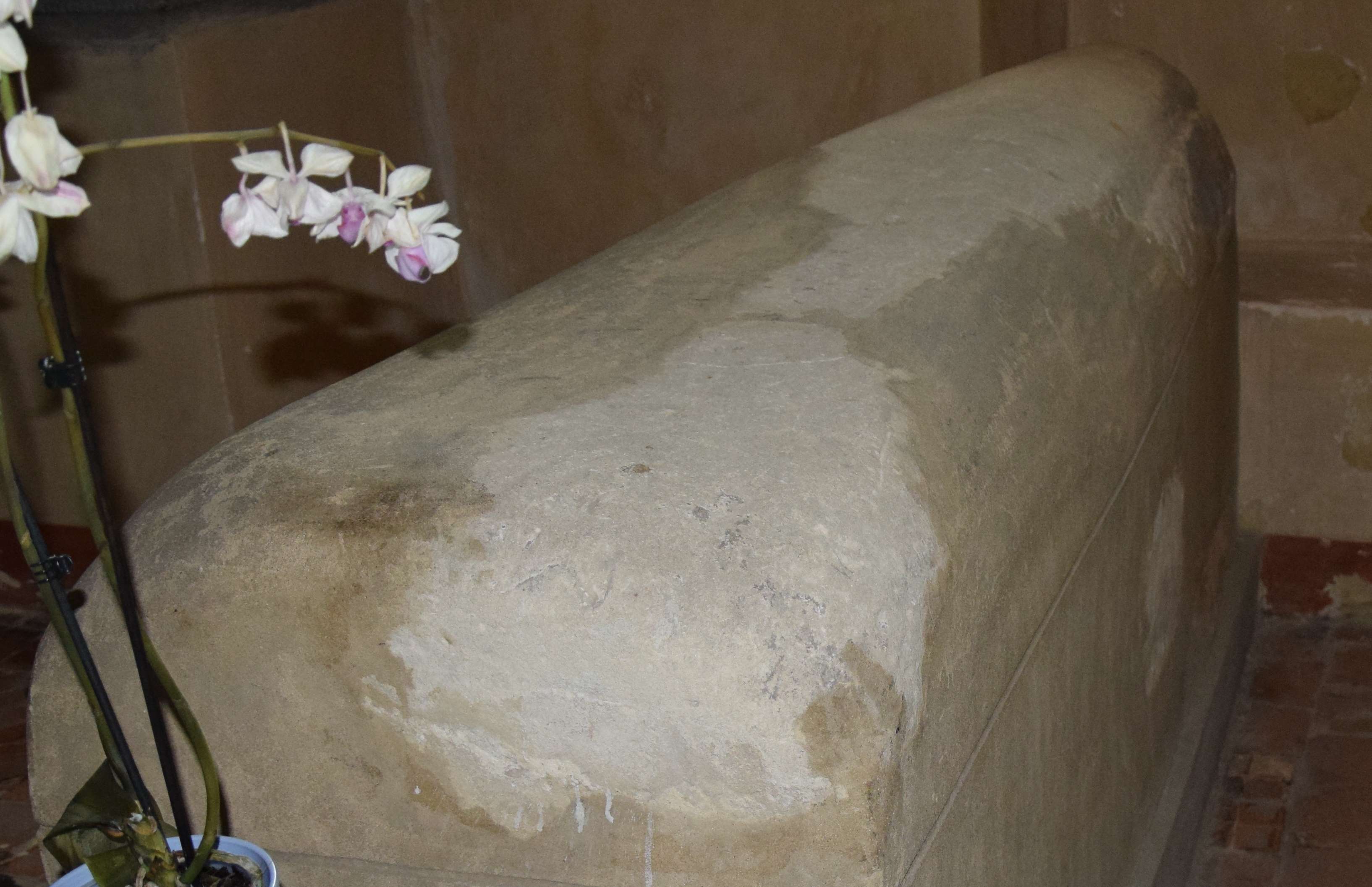 Collégiale Saint-Ursmer (Lobbes) - Crypte with the sarcophagus of Saint Ermin, 8th-century abbot of Lobbes.